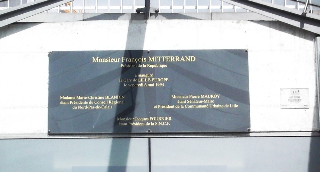 Lille Europe plaque